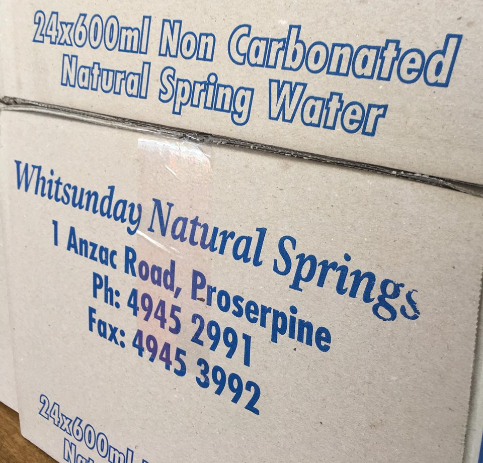 Boxes of Whitsunday Natural Springs bottled water, produced in Proserpine.